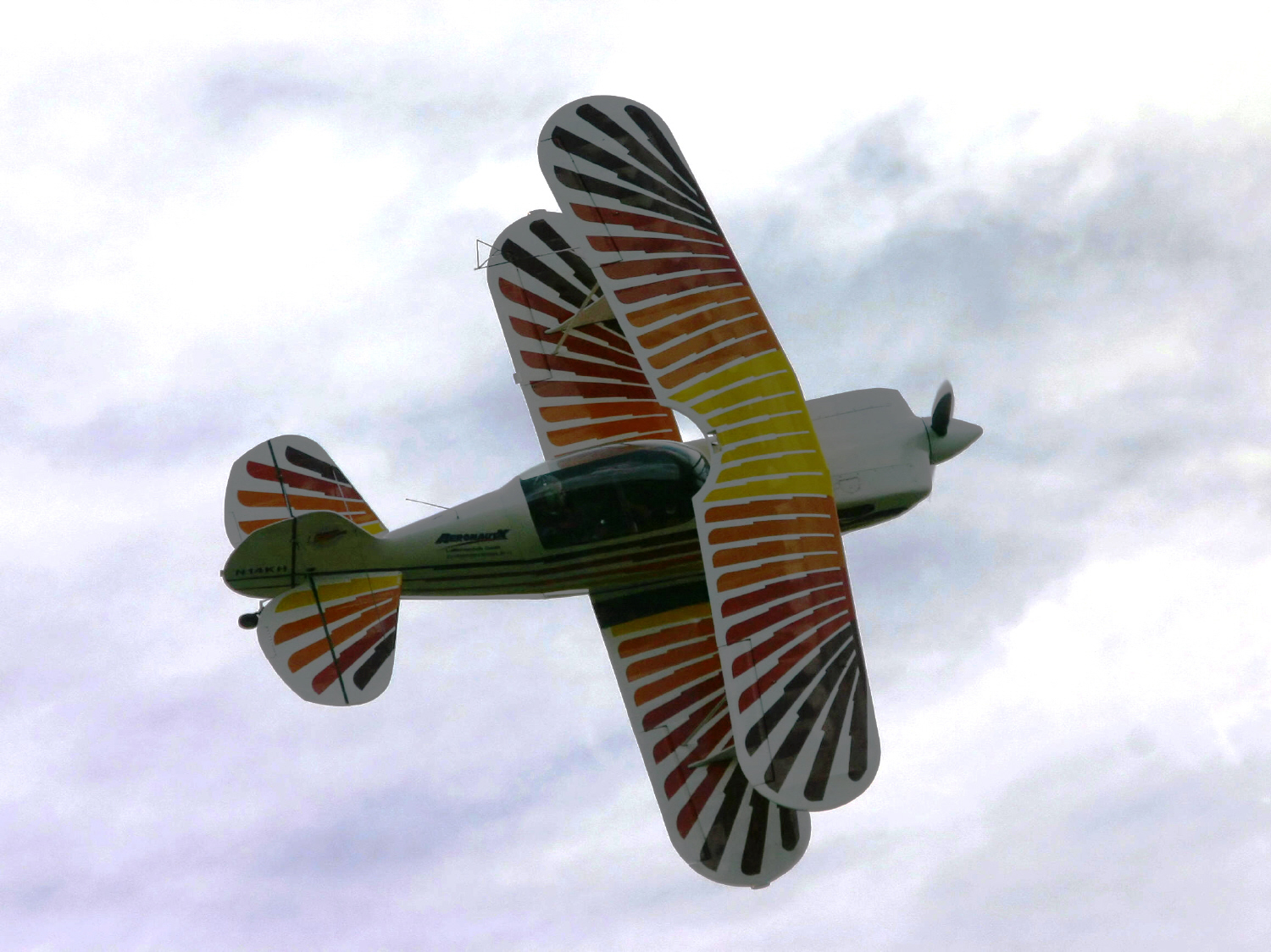 A Christen Eagle in an arobatic display during the airshow at Kirchheim, Upper Austria